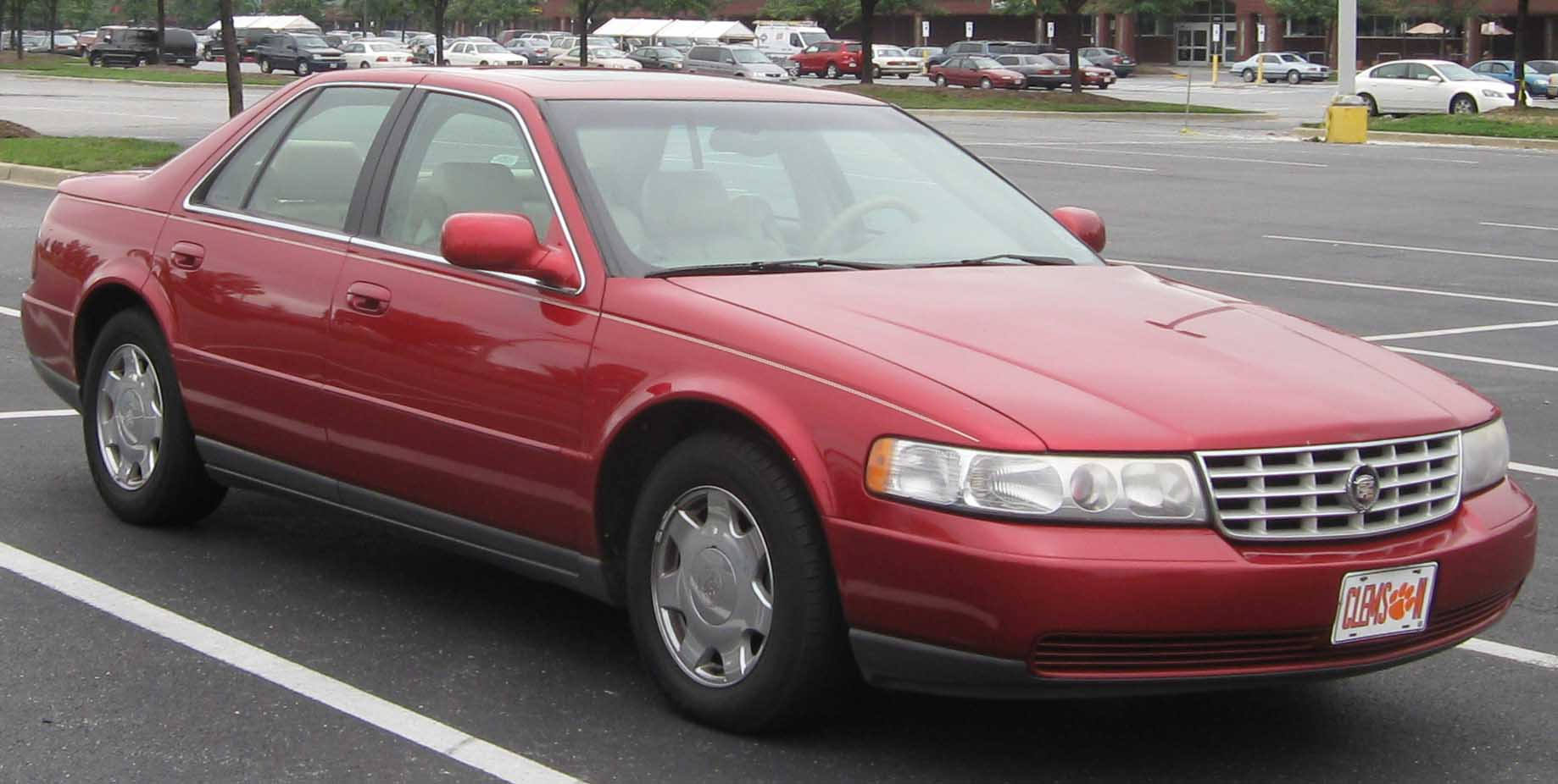 1998-2004 Cadillac Seville photographed in Clinton, Maryland, USA.